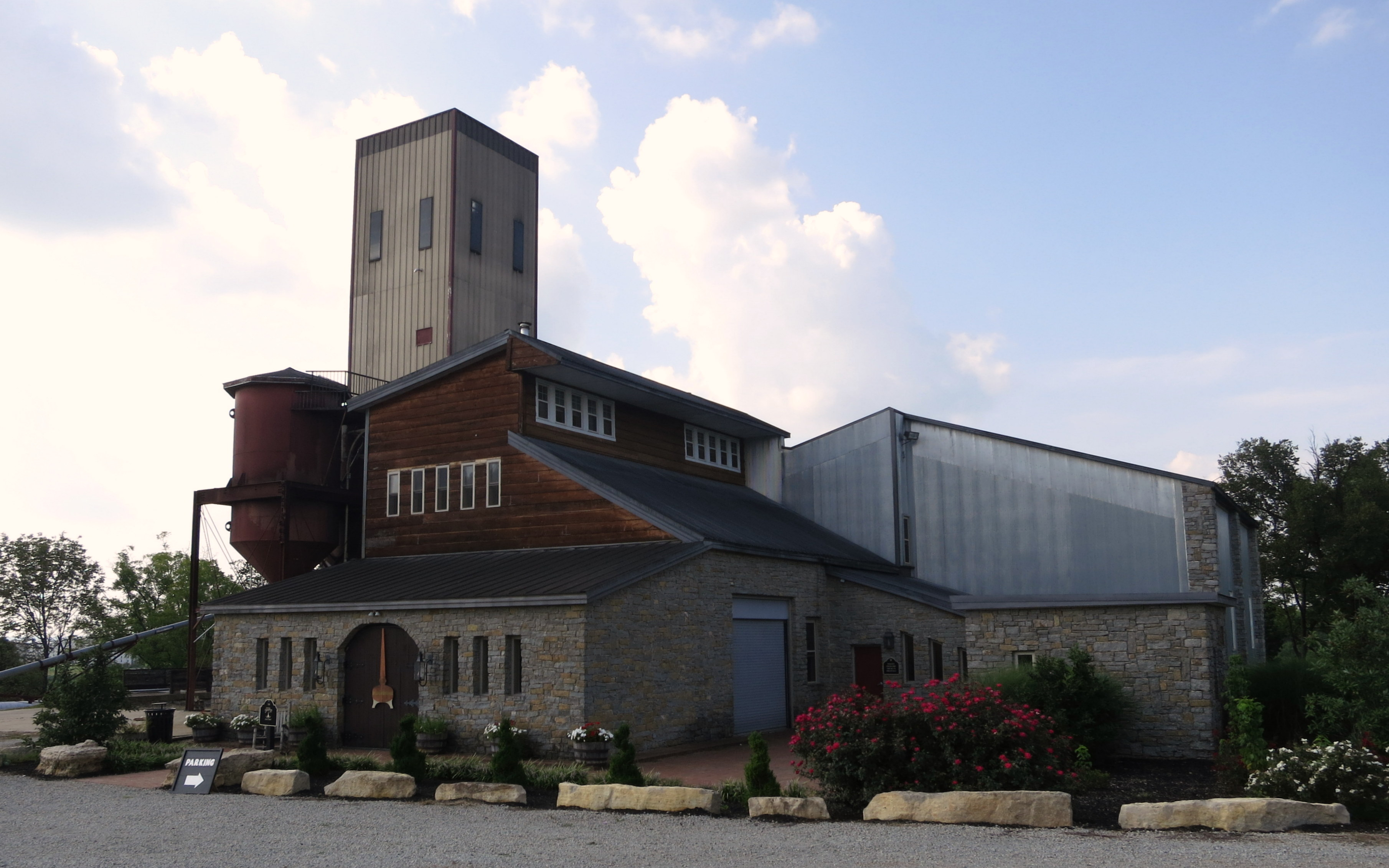 Willet Distillery (Bardstown, Kentucky)